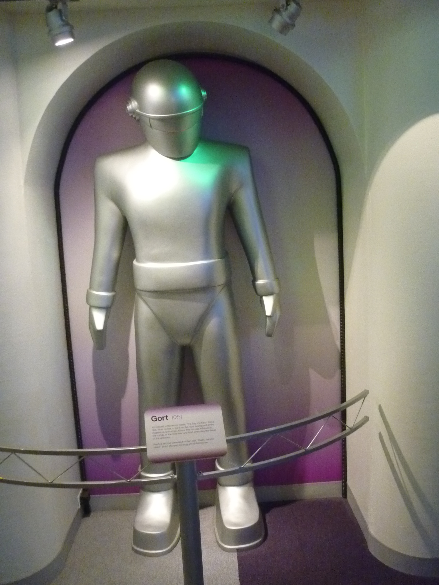 A replica of Gort, a fictional, eight-foot humanoid robot from the 1951 film "The Day the Earth Stood Still", at the Robot Hall of Fame, inaugural class of 2006, in Carnegie Science Center Pittsburgh, PA.